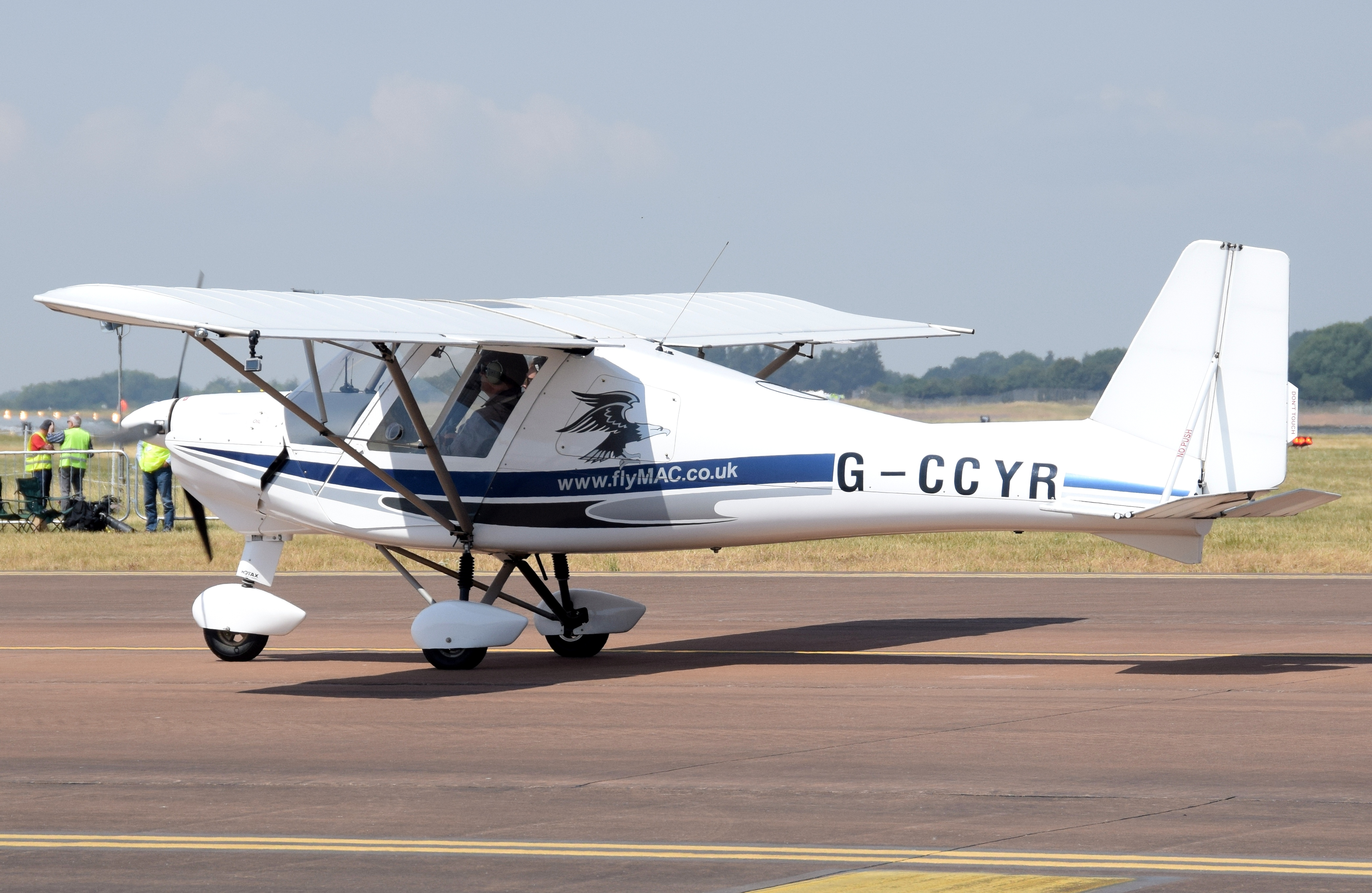 Ikarus C42 FB80 ultralight aircraft (G-CCYR) of Airbourne Aviation arrives at the 2018 Royal International Air Tattoo, RAF Fairford, England. The aircraft is operated from Popham Airfield, Winchester, England.